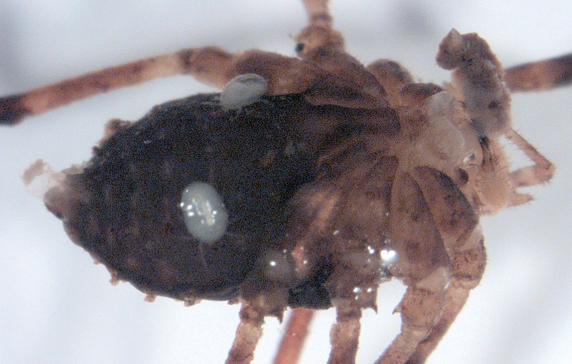 Monoscutum titirangiense (ventral) with two attached mite (Parasitengona) larvae (also one on dorsum not visible in image)